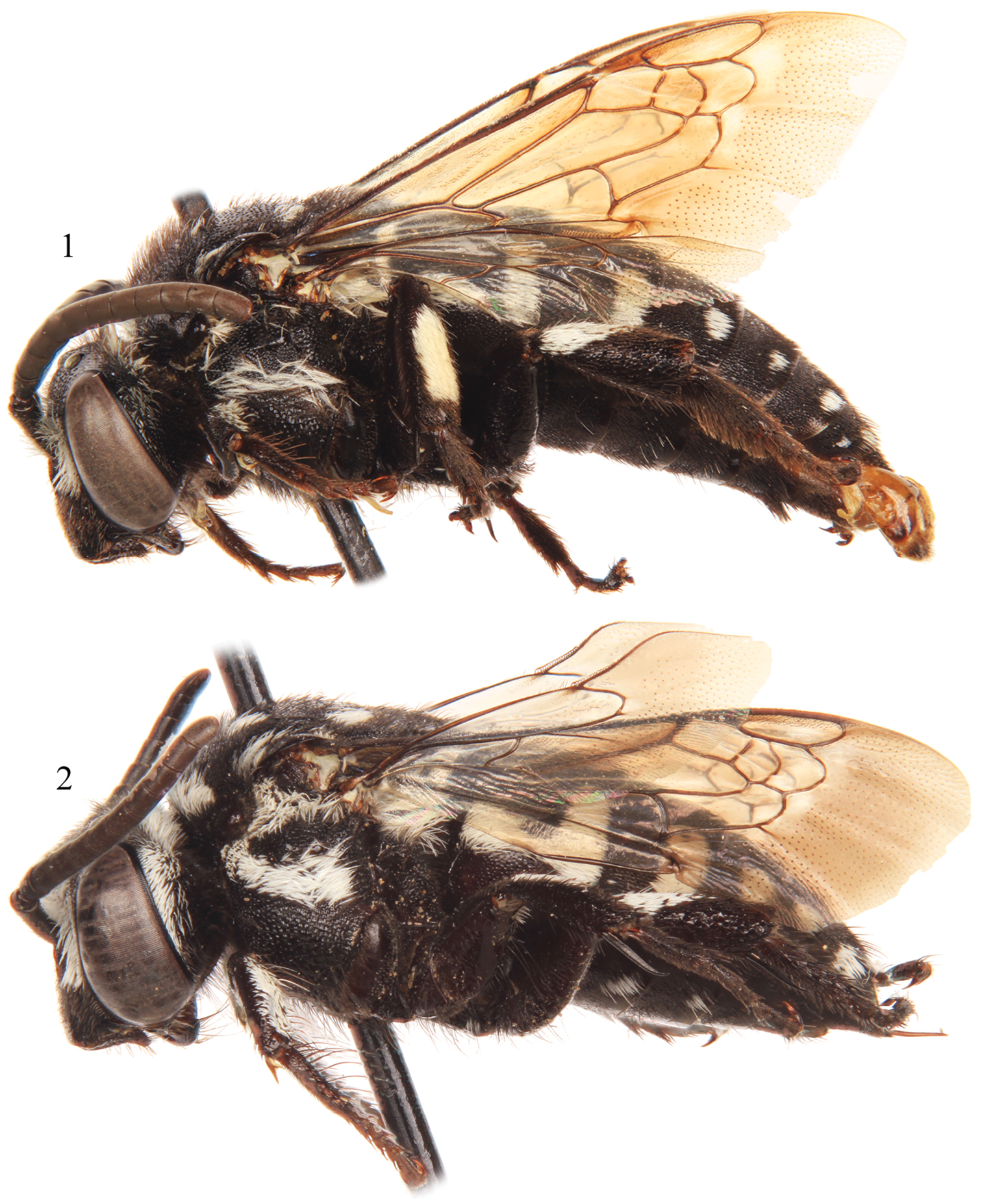 Lateral habitus of Thyreus denolii from Boavista. 1 Male 2 Female.